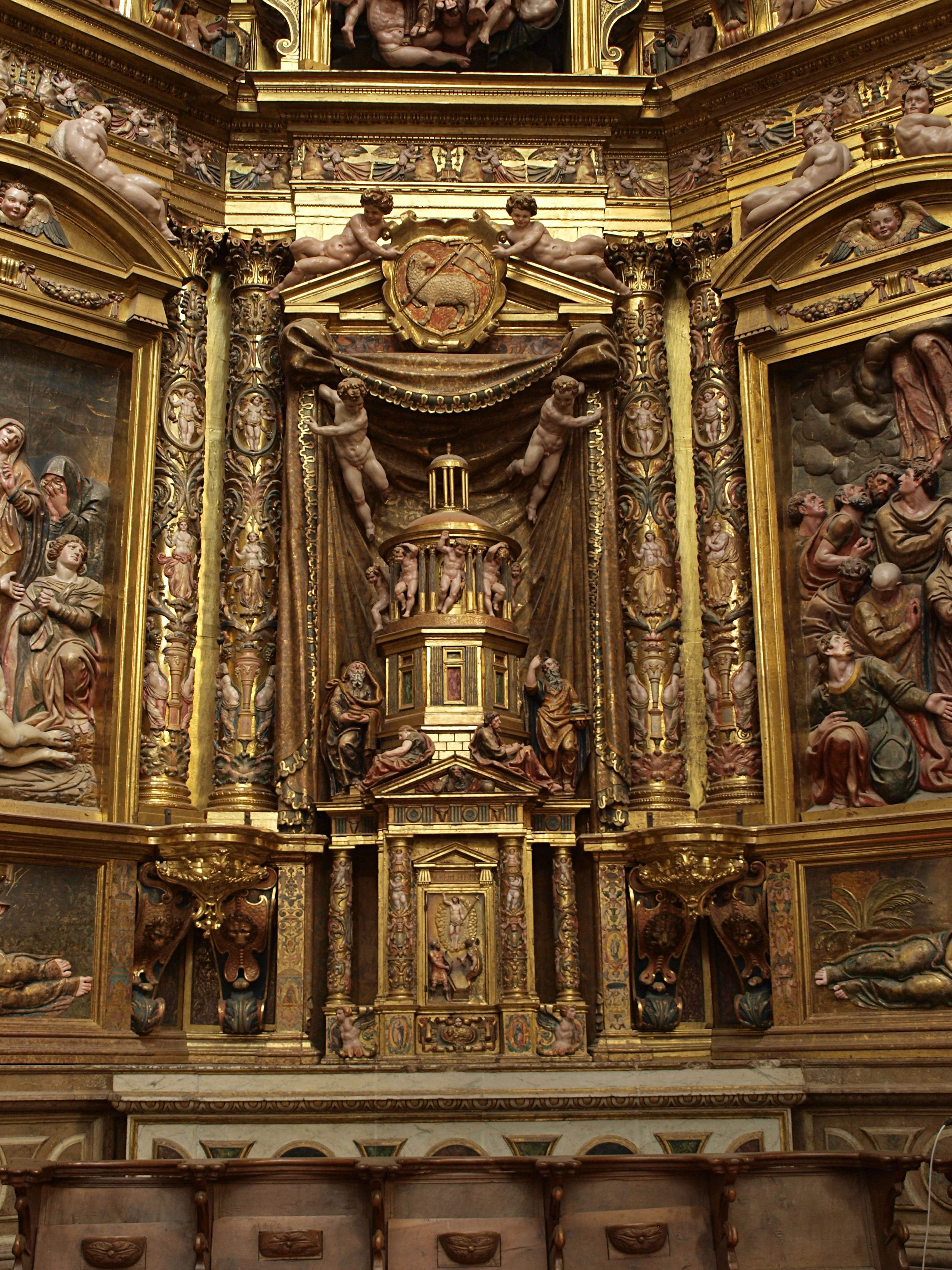 Astorga Cathedral, Astorga (Province of León, Spain).